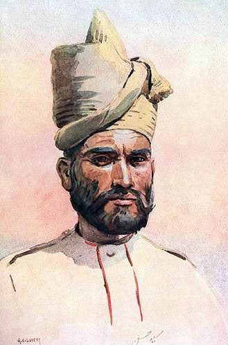 Sepoy 26th Punjabis (now 10th Battalion The Punjab Regiment, Pakistan Army). Watercolour by Major Alfred Crowdy Lovett, 1910. Published in MacMunn & Lovett, Armies of India, 1911.